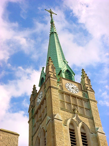 Downtown Belleville St. Peter's Cathedral.